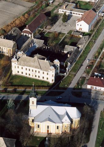 Hajós, Hungary, aerialphotography